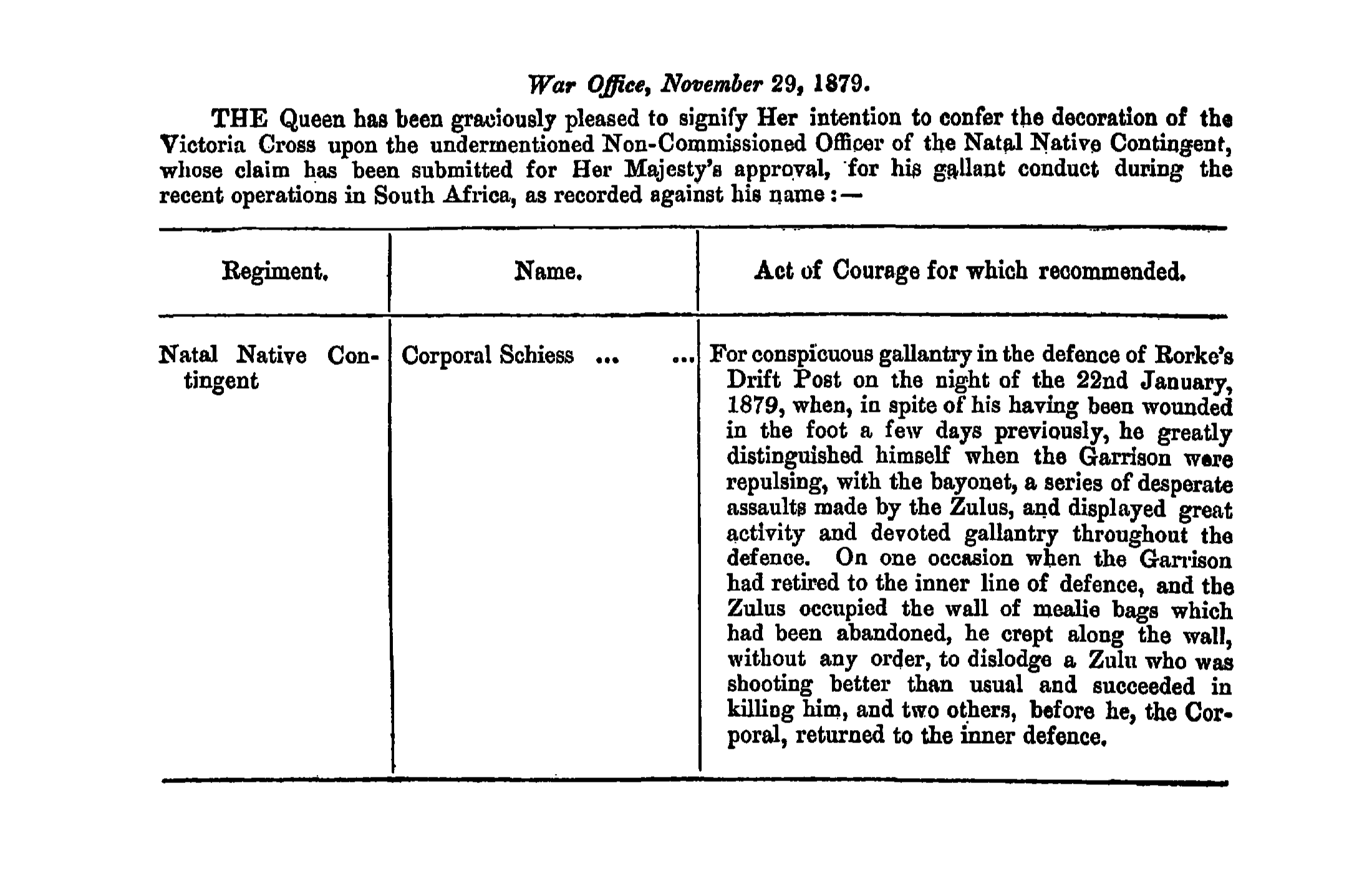 The London Gazette, 2 Dec 1879, issue 24788, page 7148